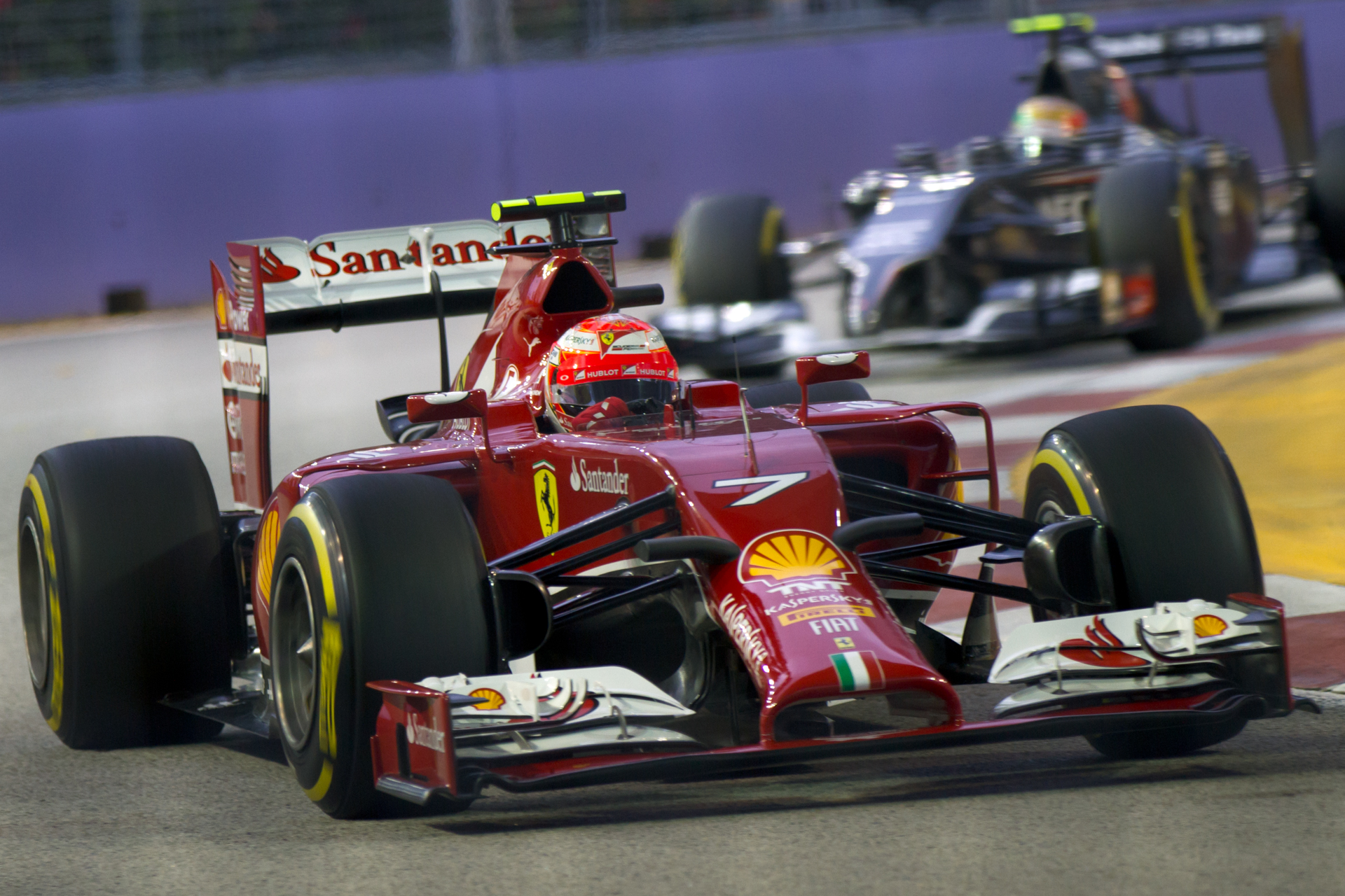 Formula One 2014 Rd.14 Singapore GP: Kimi Räikkönen (Ferrari)